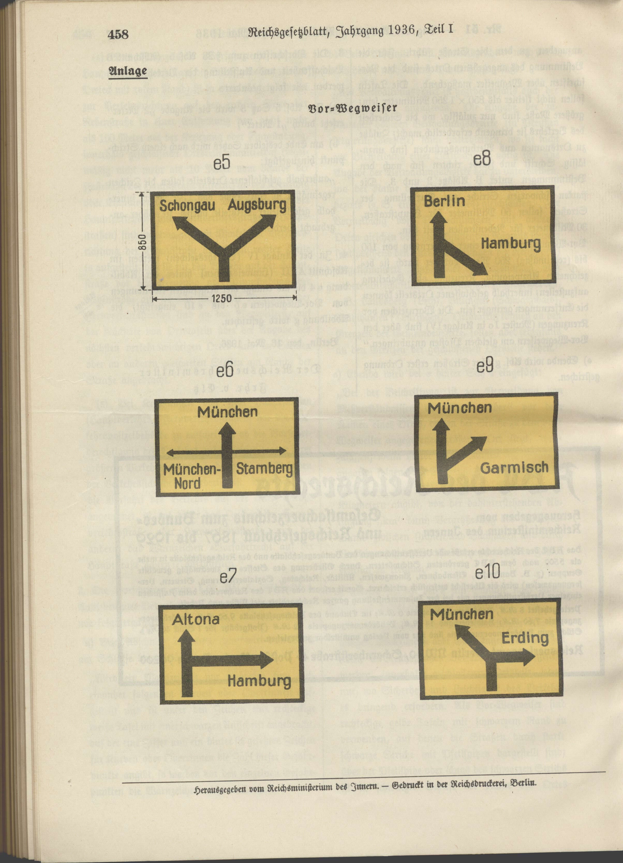 Scan from the Imperial Law Gazette of Germany, 1936, part 1